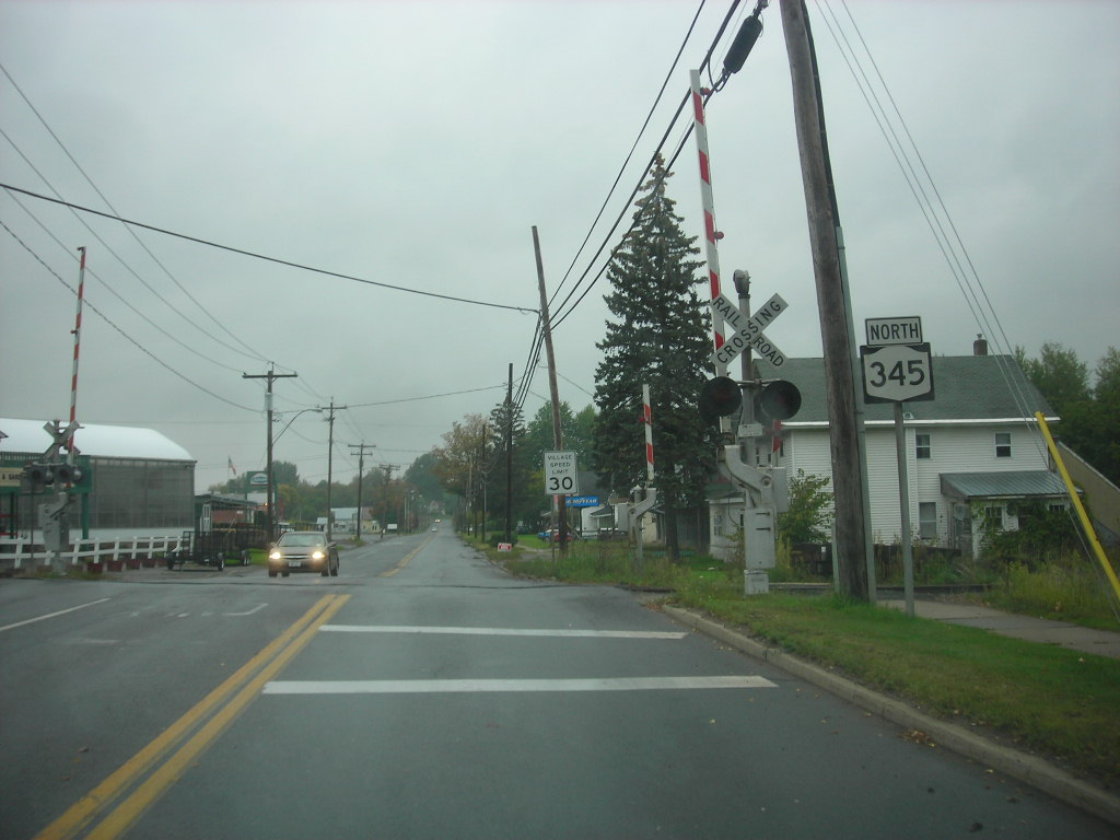 New York State Route 345 leaving downtown Potsdam, New York crossing tracks maintained by CSX for their St. Lawrence Subdivision.